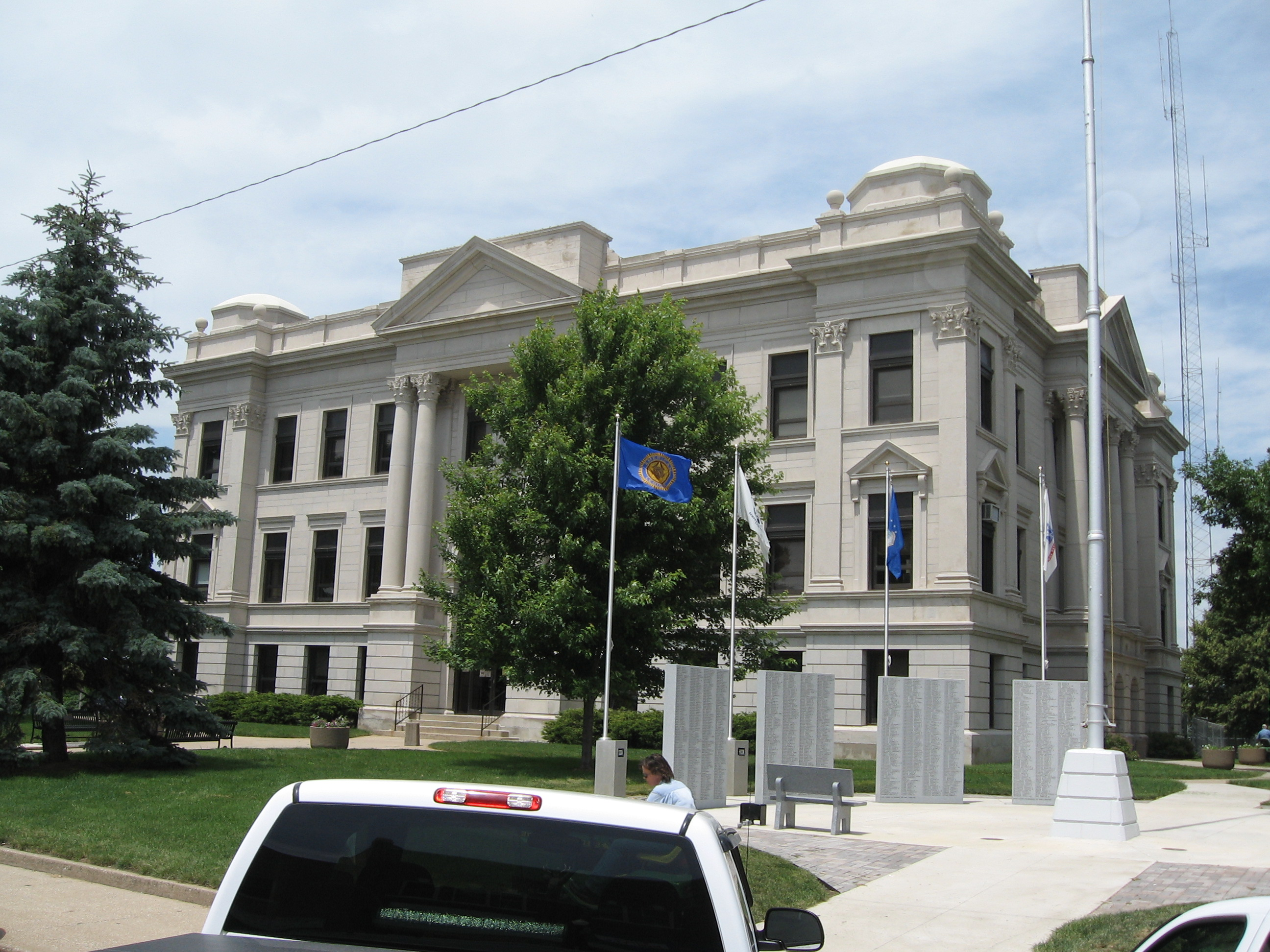 Crawford County Courthouse. Location: Broadway between Ave. B and Ave. C, Denison, IA. on NRHP Billwhittaker